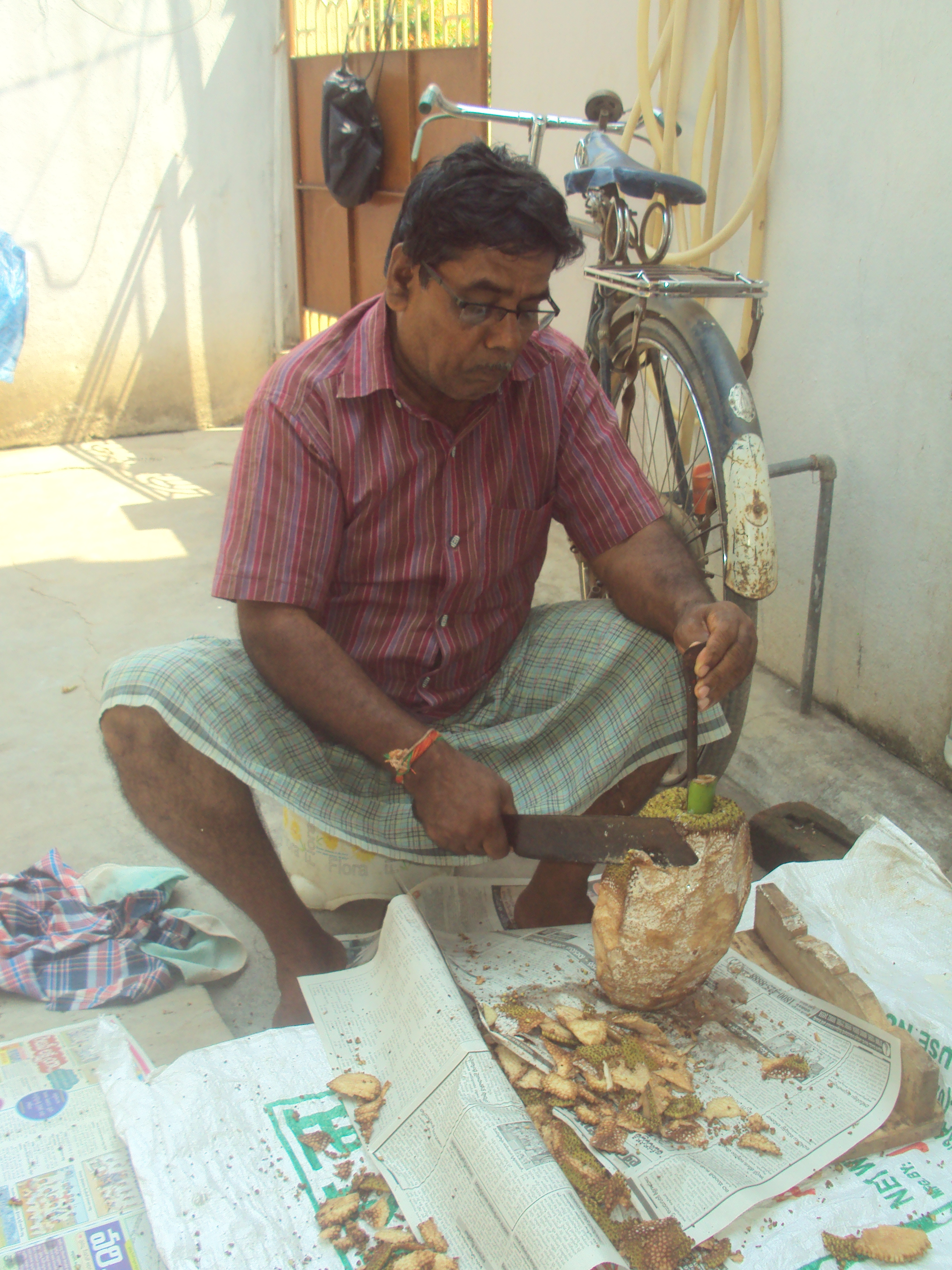 Cutting the skin of jack fruit for cooking a special dish of andhrapradesh named Panasa pattu kura(jack fruit skin curry)